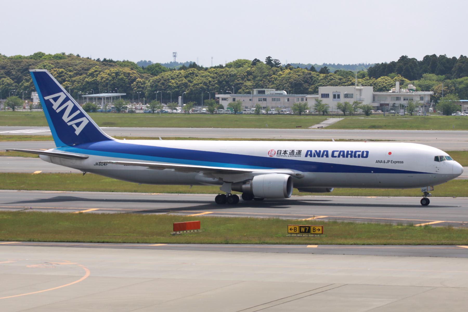 Narita International Airport, Boeing 767-381F, c/n:35709, All Nippon Airways